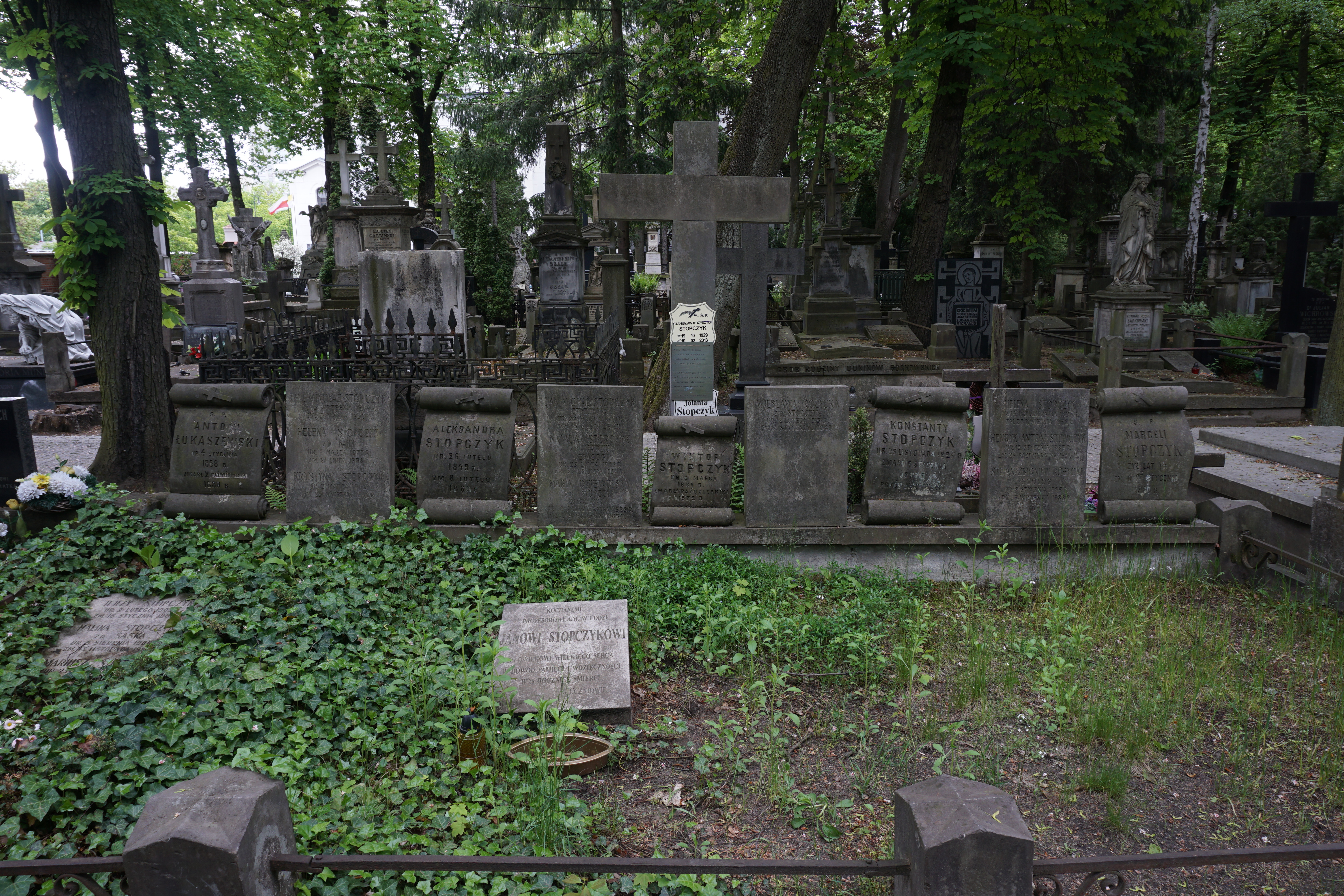 The grave of Wiesława Różycka at the Powązki Cemetery (section 15, row 2, grave 12, 13, 14, 15)